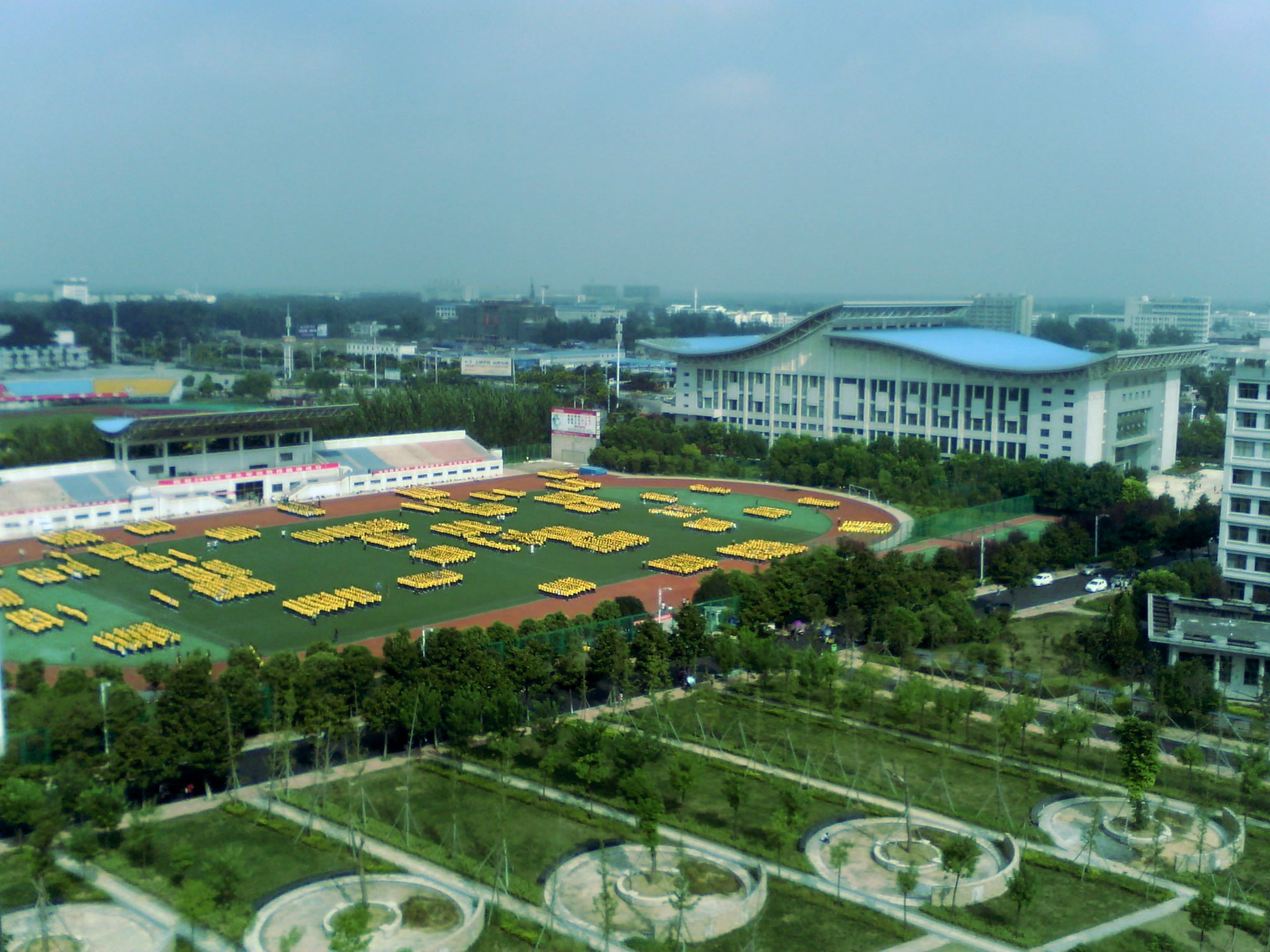 Freshman students performing military training at Fuyang Teachers College in Fuyang city, Anhui province, China. September 2013.